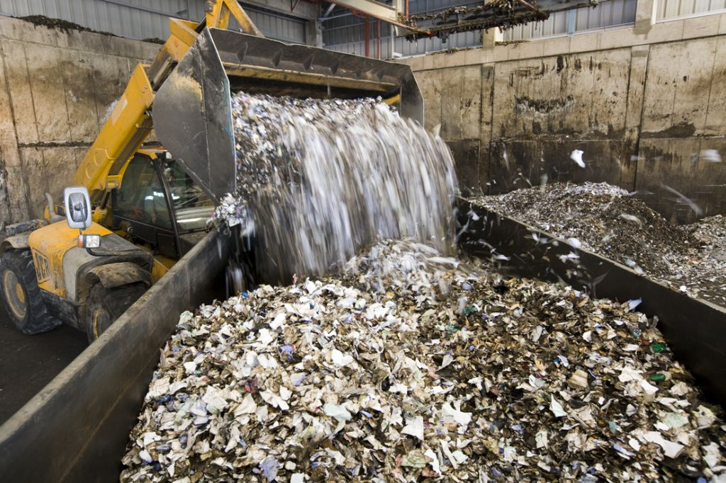 image used in the co-processing wiki